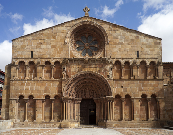 iglesia San Pedro; Soria, Castilla y León, Soria, Spain; Fachada; ref: PM_071241_E_Soria; Iglesia de Santo Domingo; Photographer: Paul M.R. Maeyaert; © Paul M.R. Maeyaert; ; Cultural heritage; Europeana; Europe/Spain/Soria